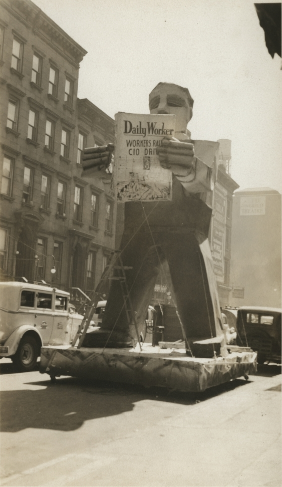 Viitekood / Reference code: ERAF.9595.1.20.15 Kirje andmebaasis FOTIS / Description in the database FOTIS